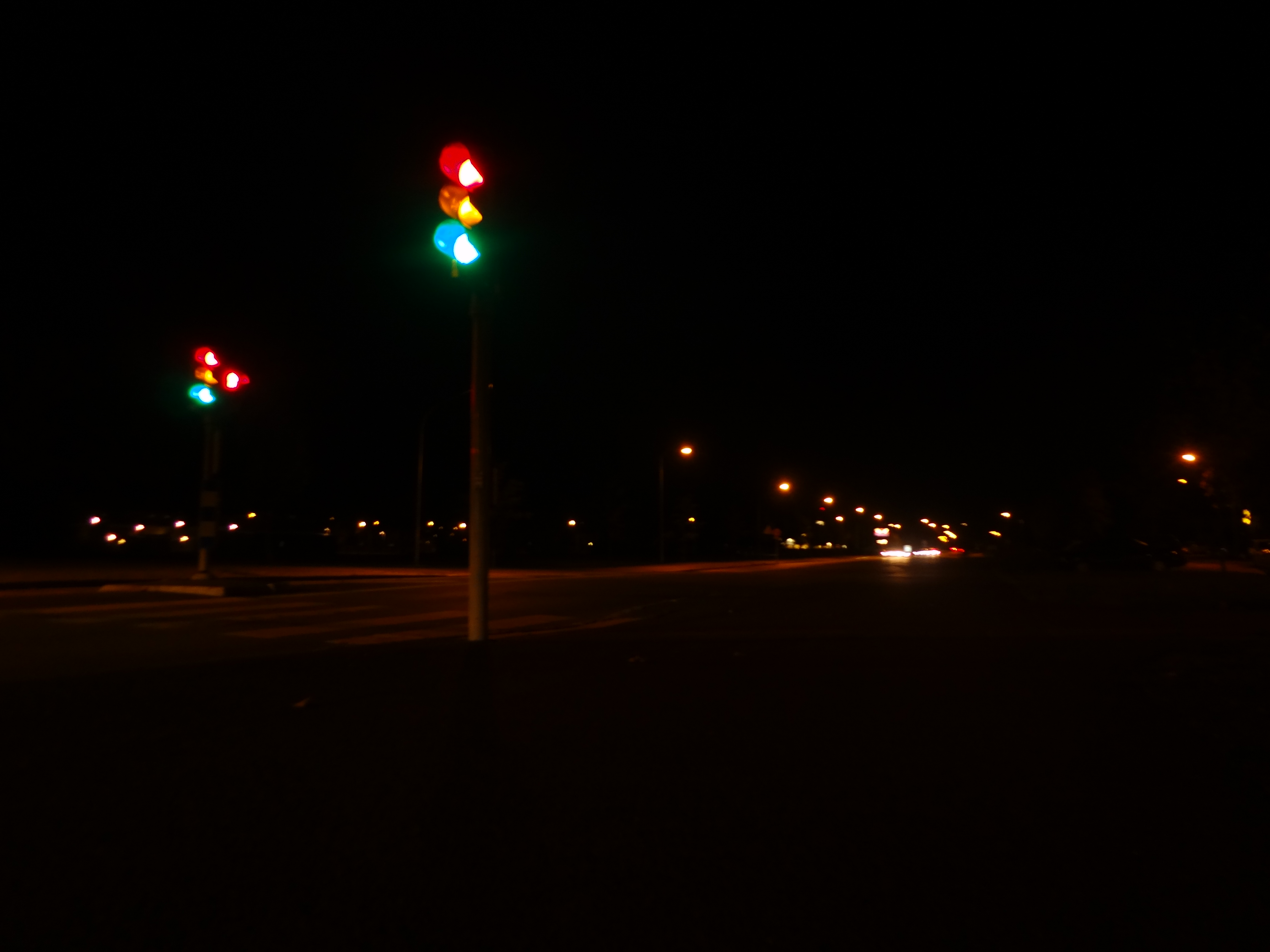 Swedish trafficlight, photo taken with long exposure time